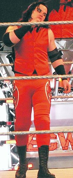 A pic of thorn I took at a Smackdown!/ECW live event in 2006 at Cincinnati Ohio.